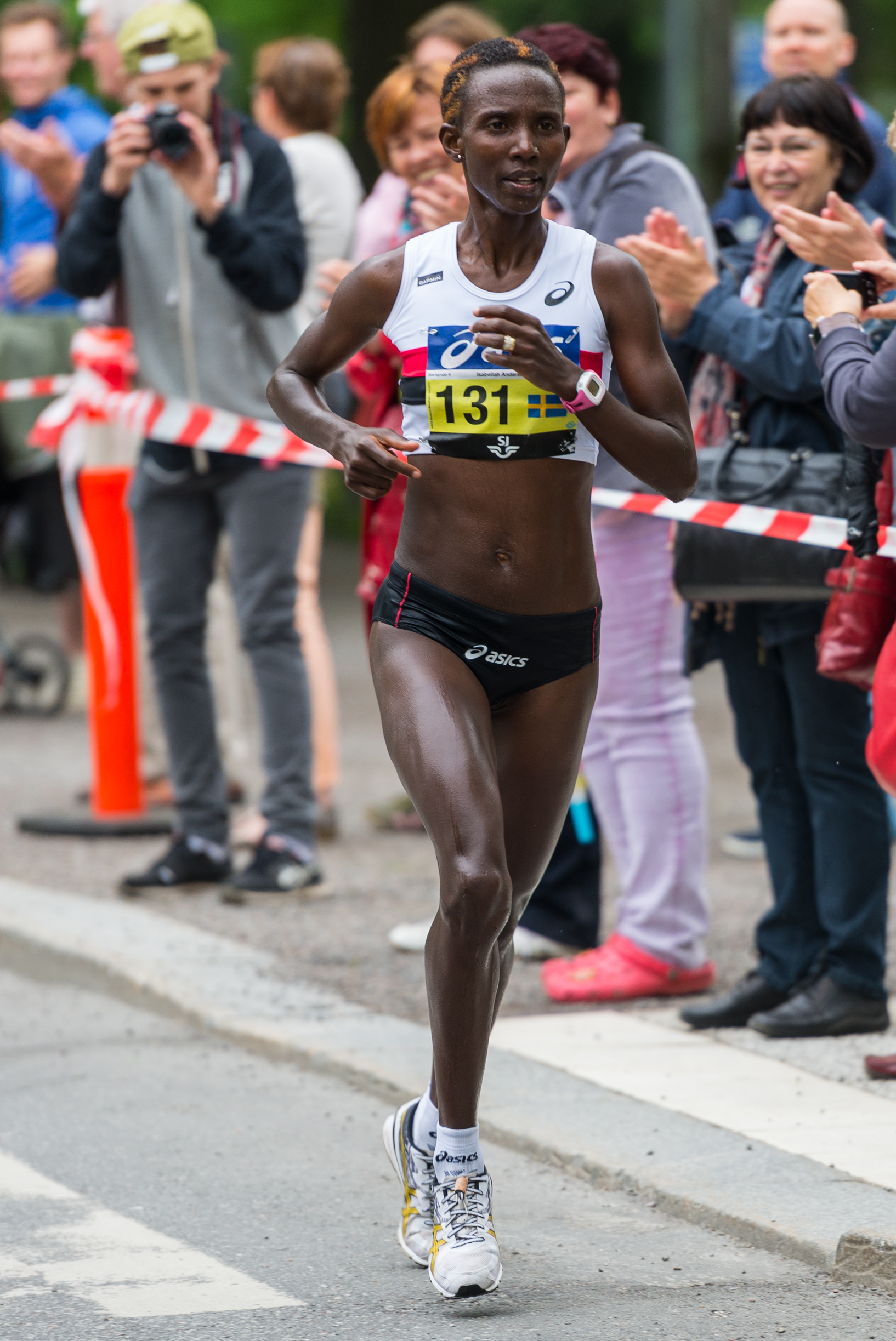 Isabella Andersson, Stockholm Marathon 2013.